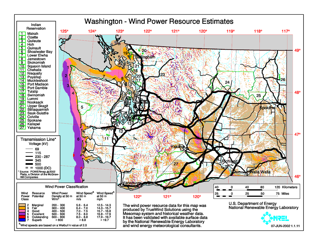 Average annual wind power distribution for Washington, 50m height above ground, also showing location of existing electrical transmission lines